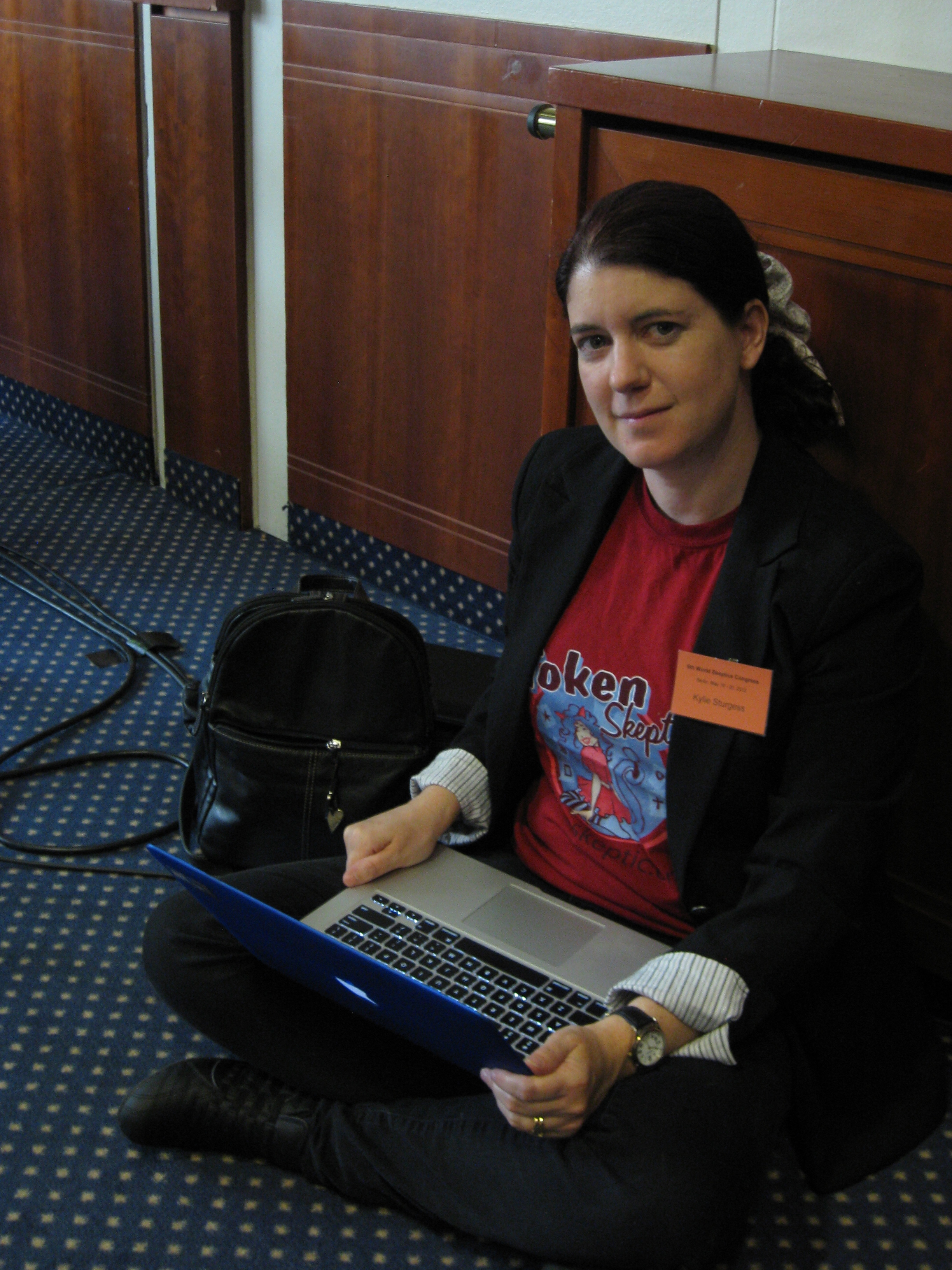 Kylie Sturgess at the World Skeptics Congress, Berlin, 2012.